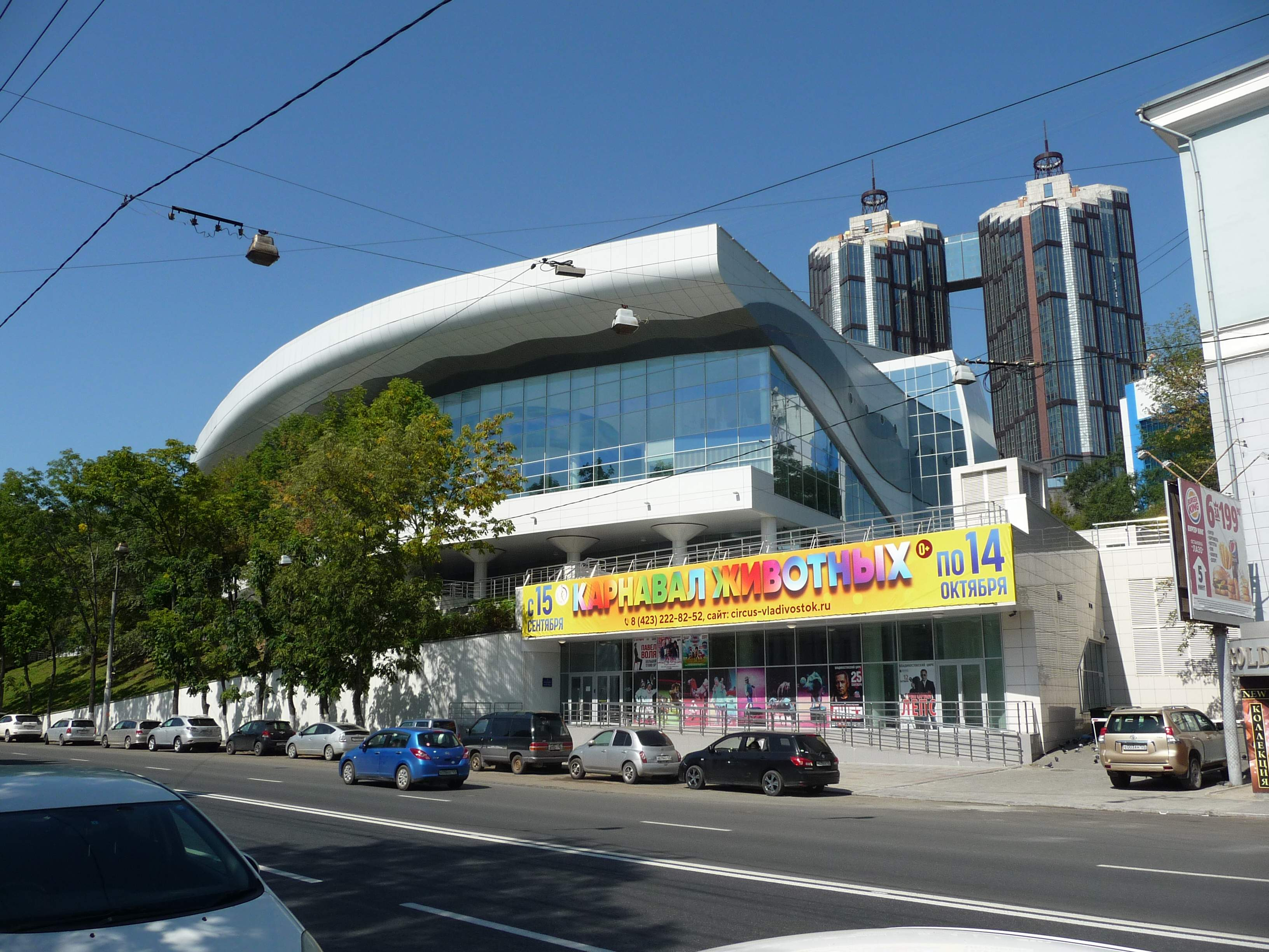 Vladivostok Circus